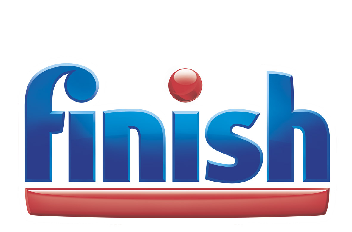 finish logo where there is a ligature between "f and i" letters